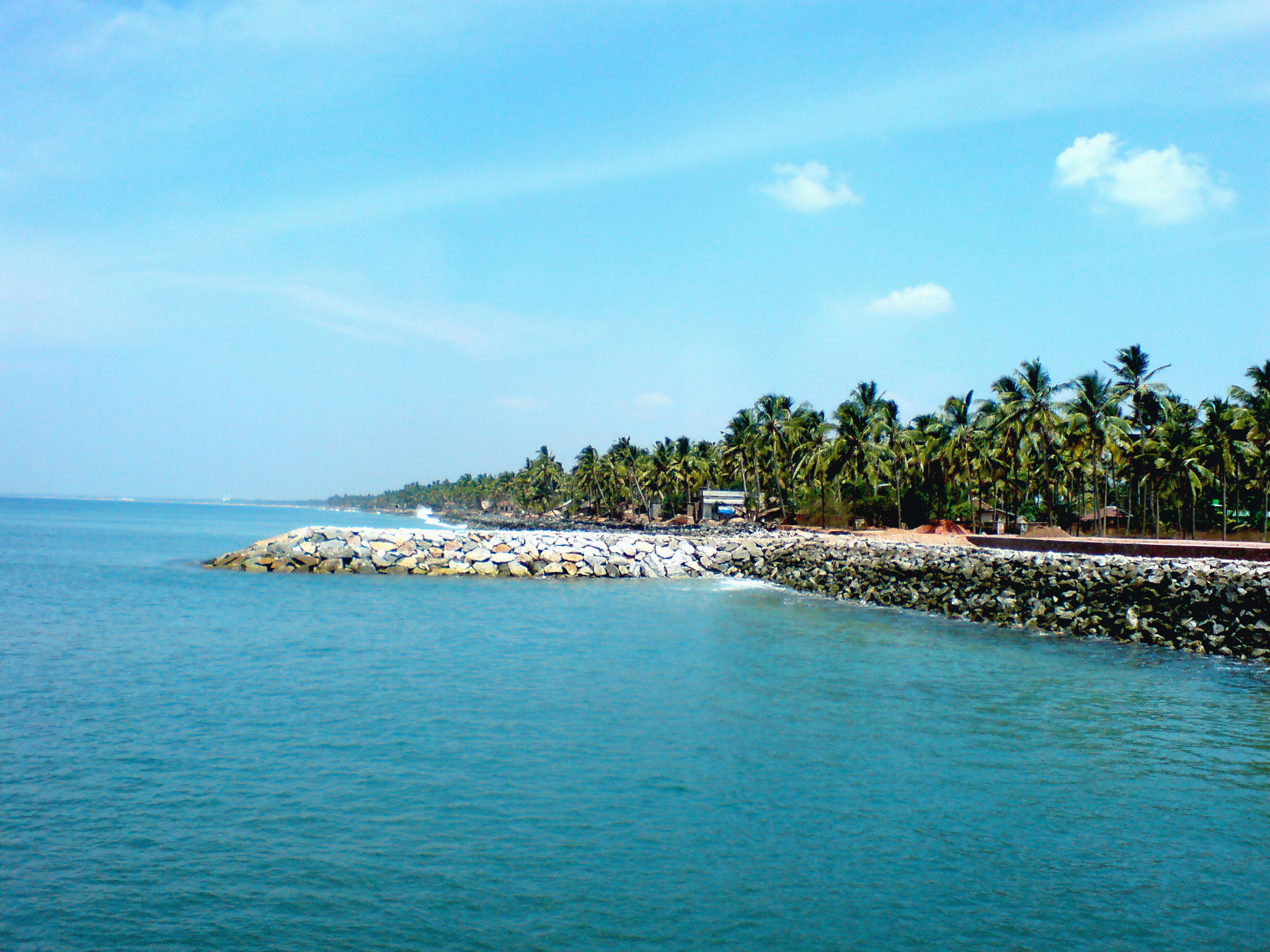 Paravur is a blessed place with full of estuary, beaches and backwaters